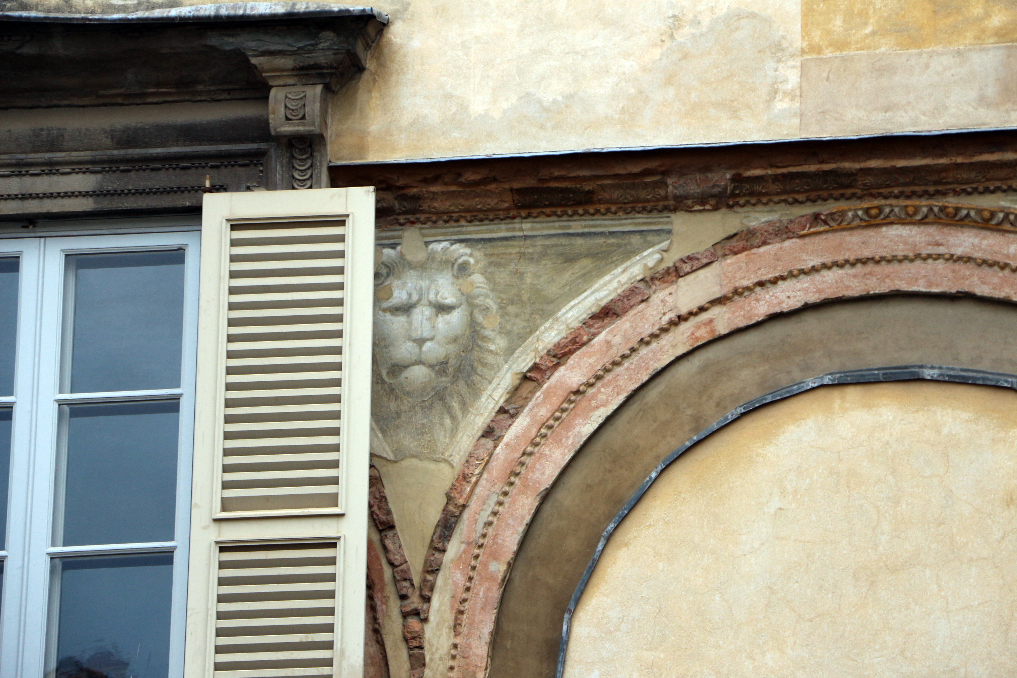 Bergamo